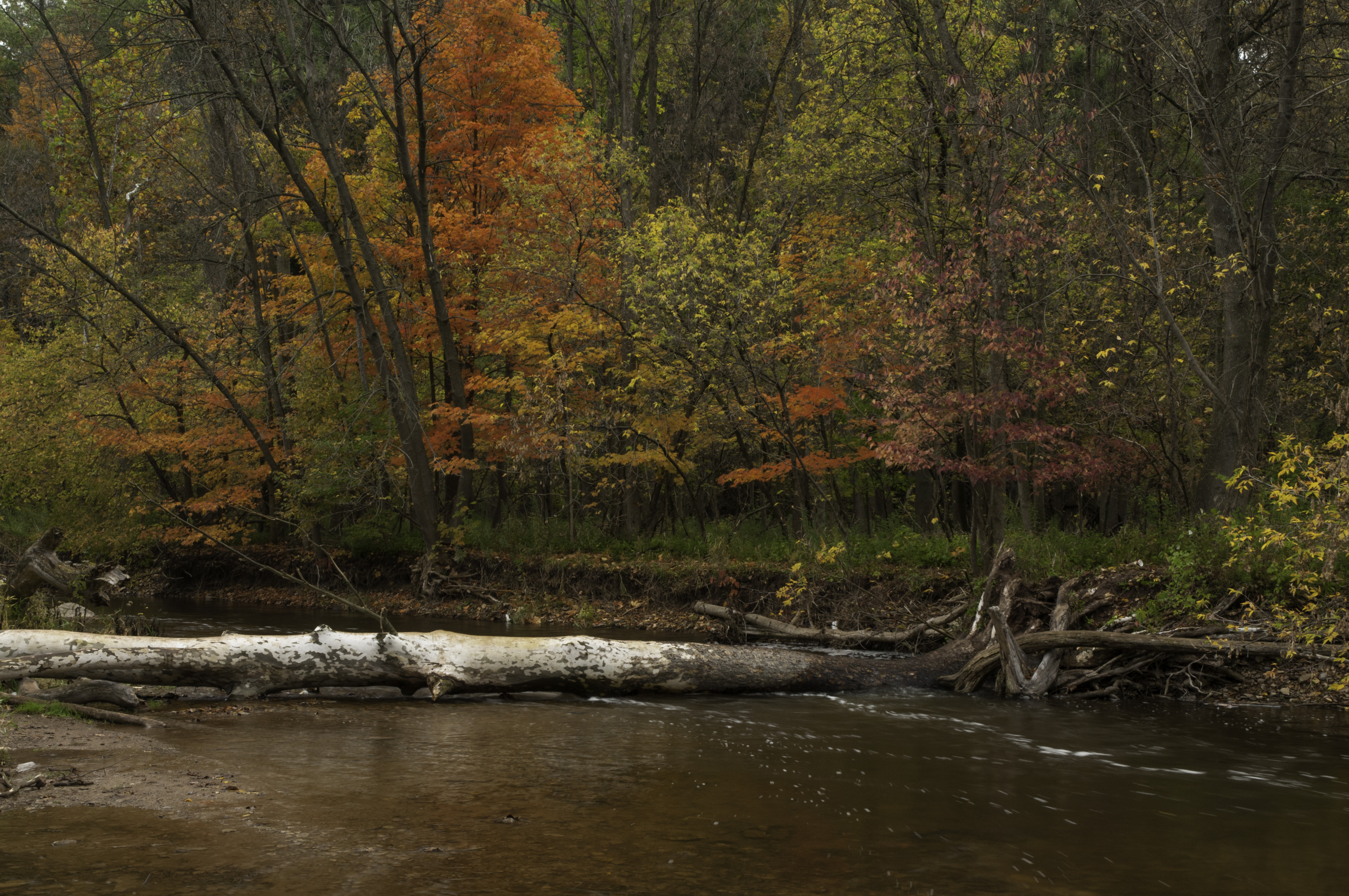 Bronte Creek in fall colours. This photo was taken in a protected area in Canada, Wikidata item Bronte Creek Provincial Park (Q4974076)